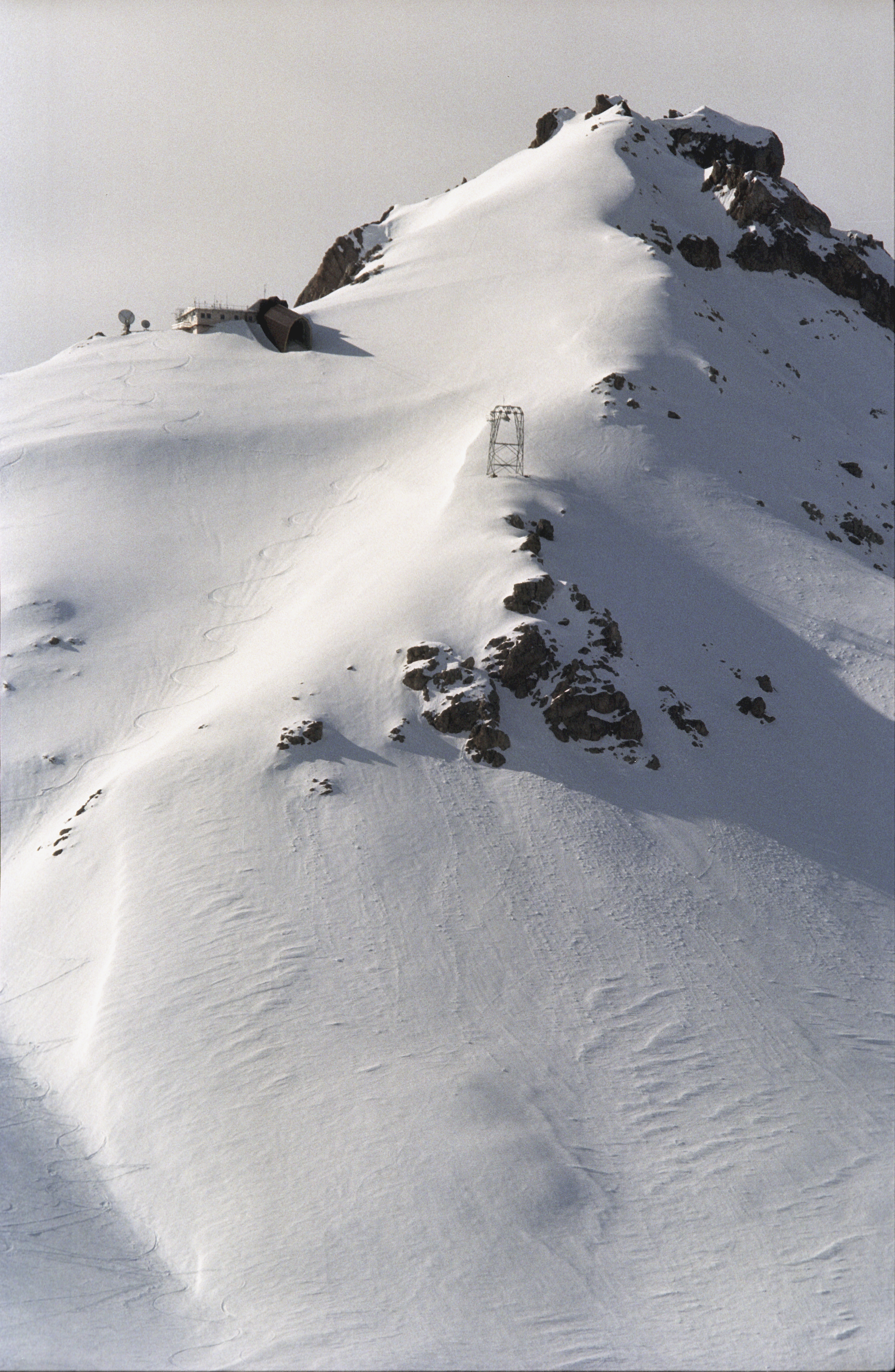 Svalbard, Ny-Ålesund, Zeppelin Station on Zeppelin Mountain at 474 m a.s.l. in Ny Ĺlesund on the west coast of Svalbard (79 degrees north latitude)